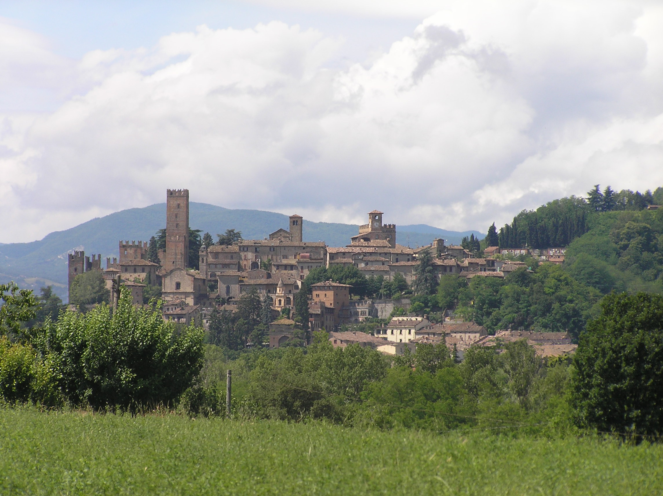 Castell'arquato view.